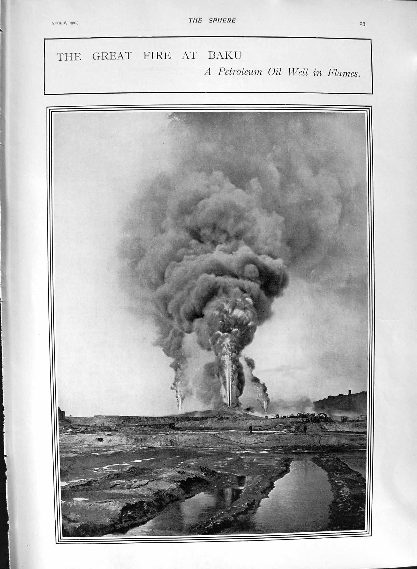 «THE GREAT FIRE AT BAKU. A Petroleum Oil Well in Flames.» A full page from The Sphere dated 1901-04-06, The Sphere was a British magazine published by London Illustrated Newspapers.